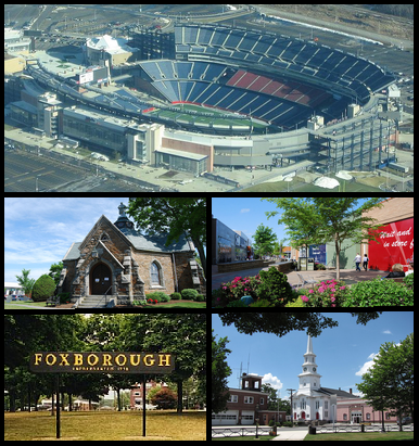 Collection of photos taken in Foxborough